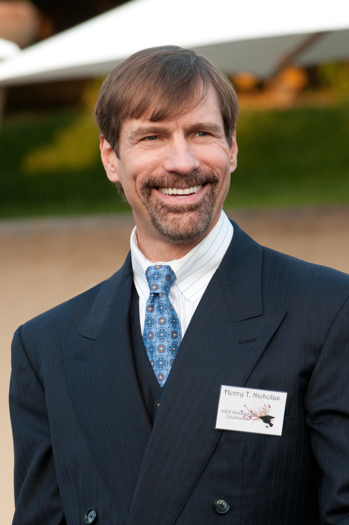 Henry Nicholas speaking at the Nicholas Academic Center Graduation